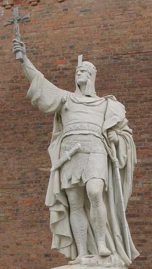 Monument commemorating Albert the Bear by Walter Schott – originally part of the Siegesallee in Berlin, today at Spandau Citadel.